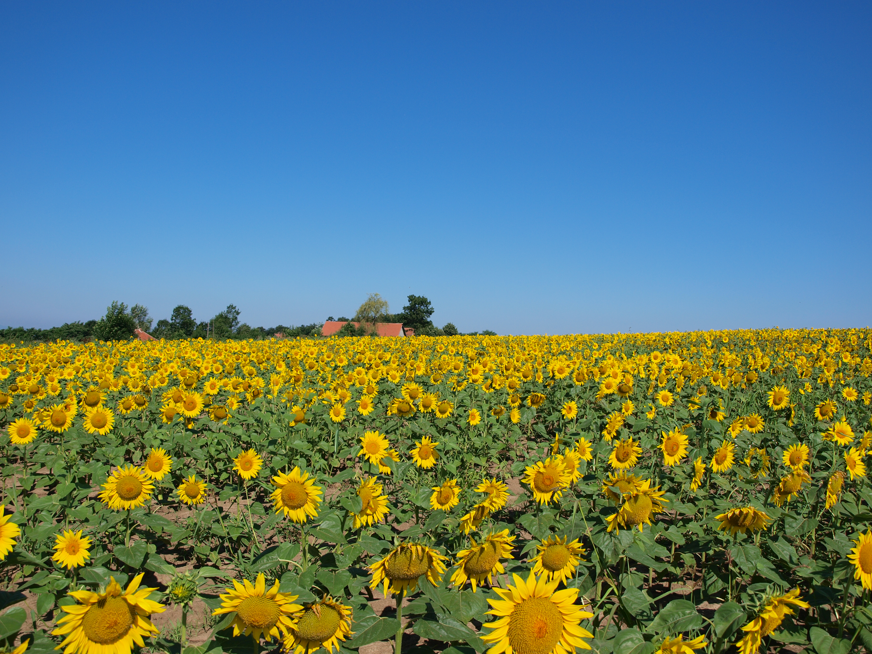 Sunflower fileds of Šumadija, central Serbia.